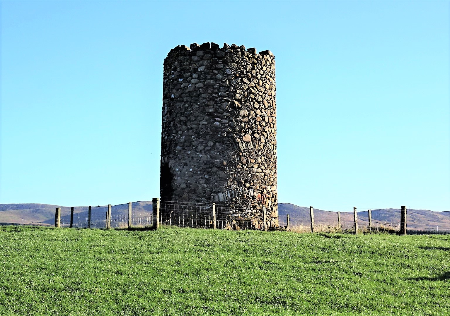 Ballantrae's Vaulted Tower Windmill, Mill Hill, South Ayrshire - view up from the cliff. Note the two relieving arches built into the wall